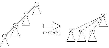 Disjoint-set forest - path compression